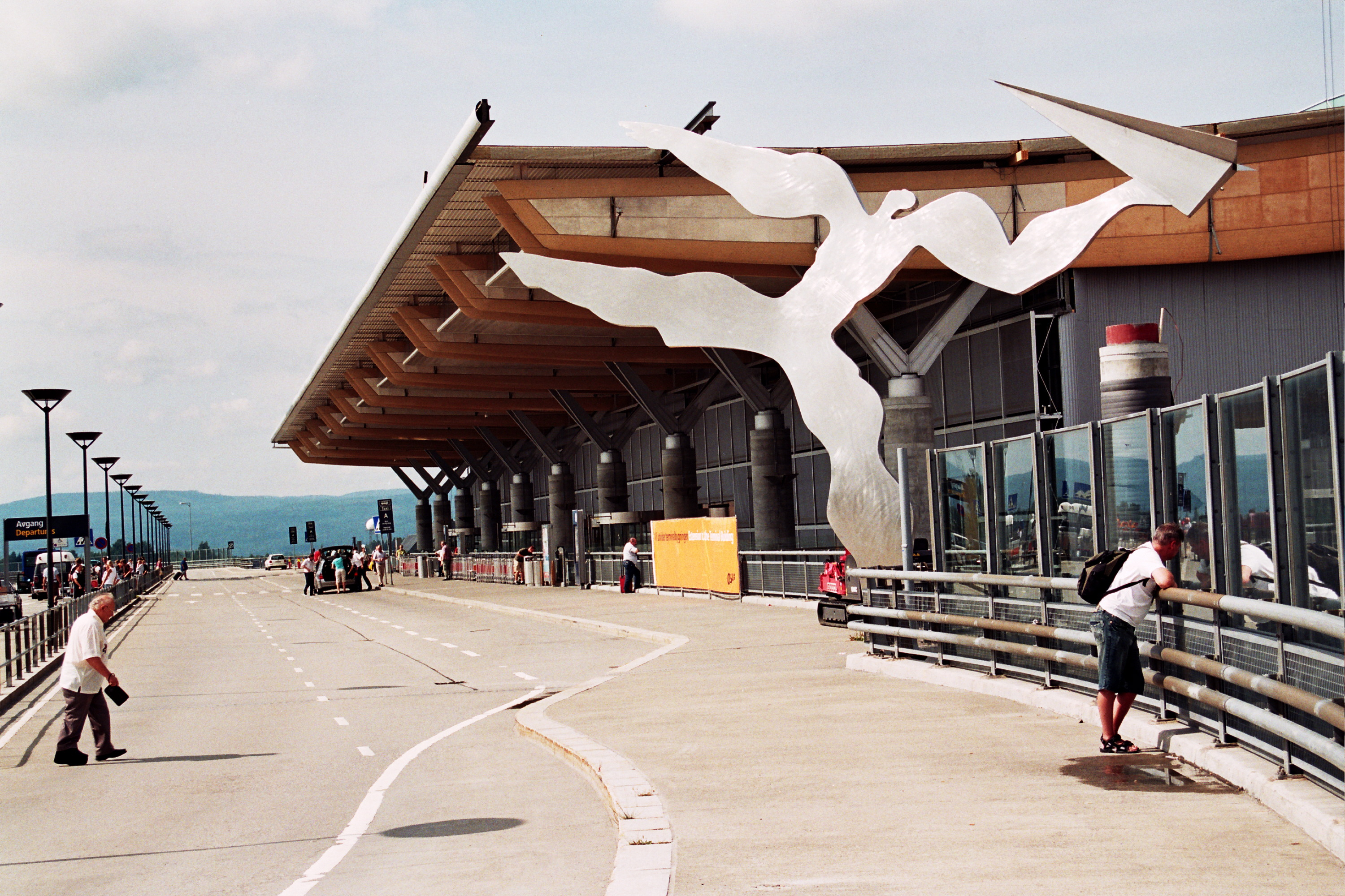 Departure section outside at at Oslo Airport, Gardermoen. Sculpture "Utkast" by Kåre Groven was moved from Fornebu airport.